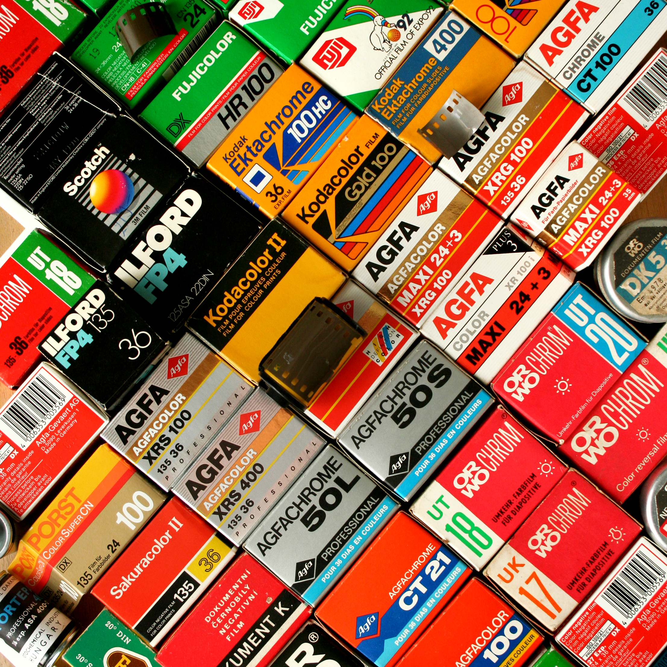 Analog Photographic film - 1980's - 1990's years